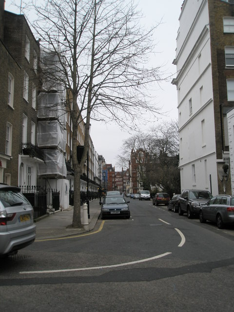 Looking westwards along Cadogan Place